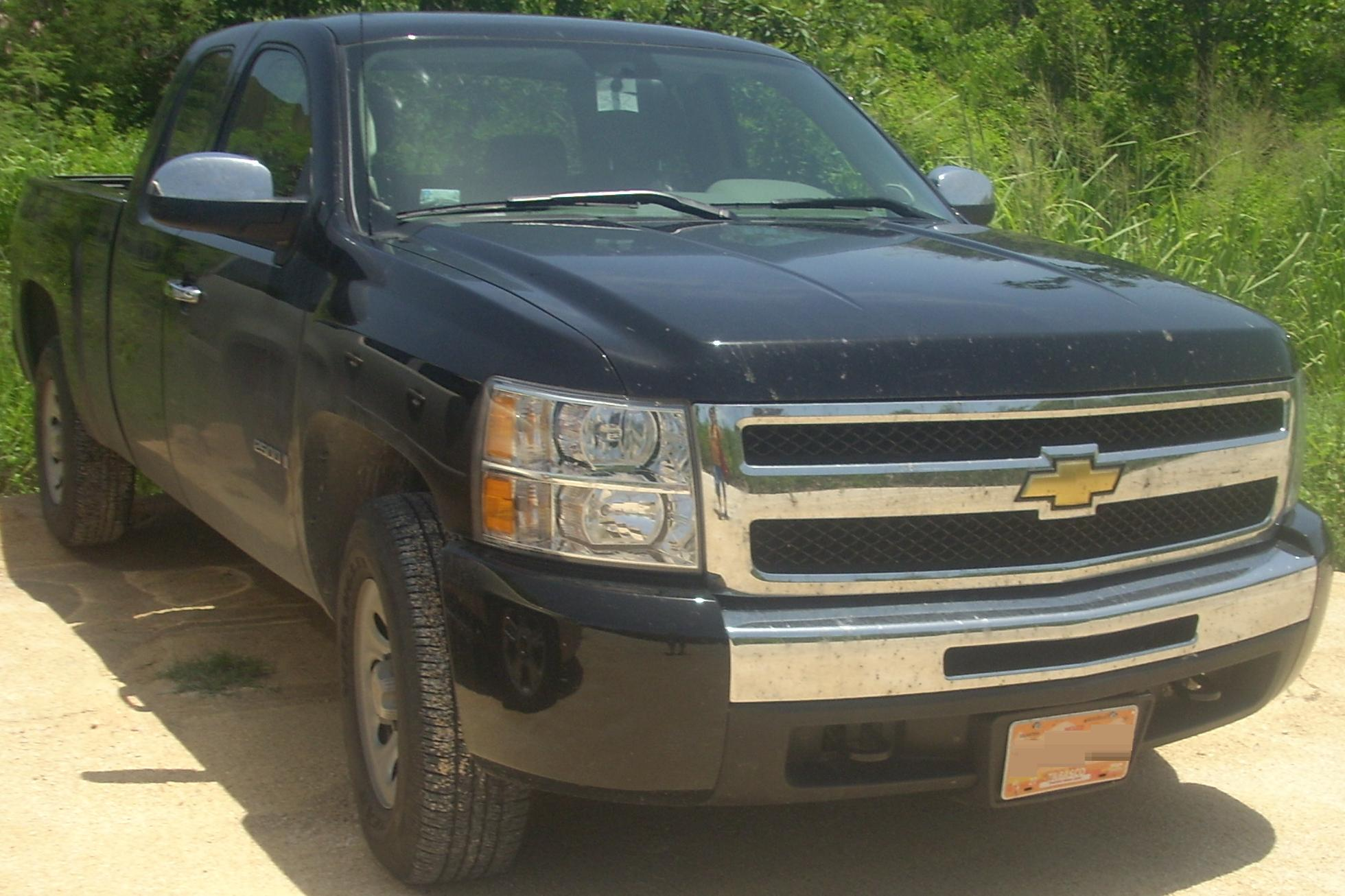 2007-2010 Chevrolet Cheyenne photographed in Cancun, Quintana Roo, Mexico.